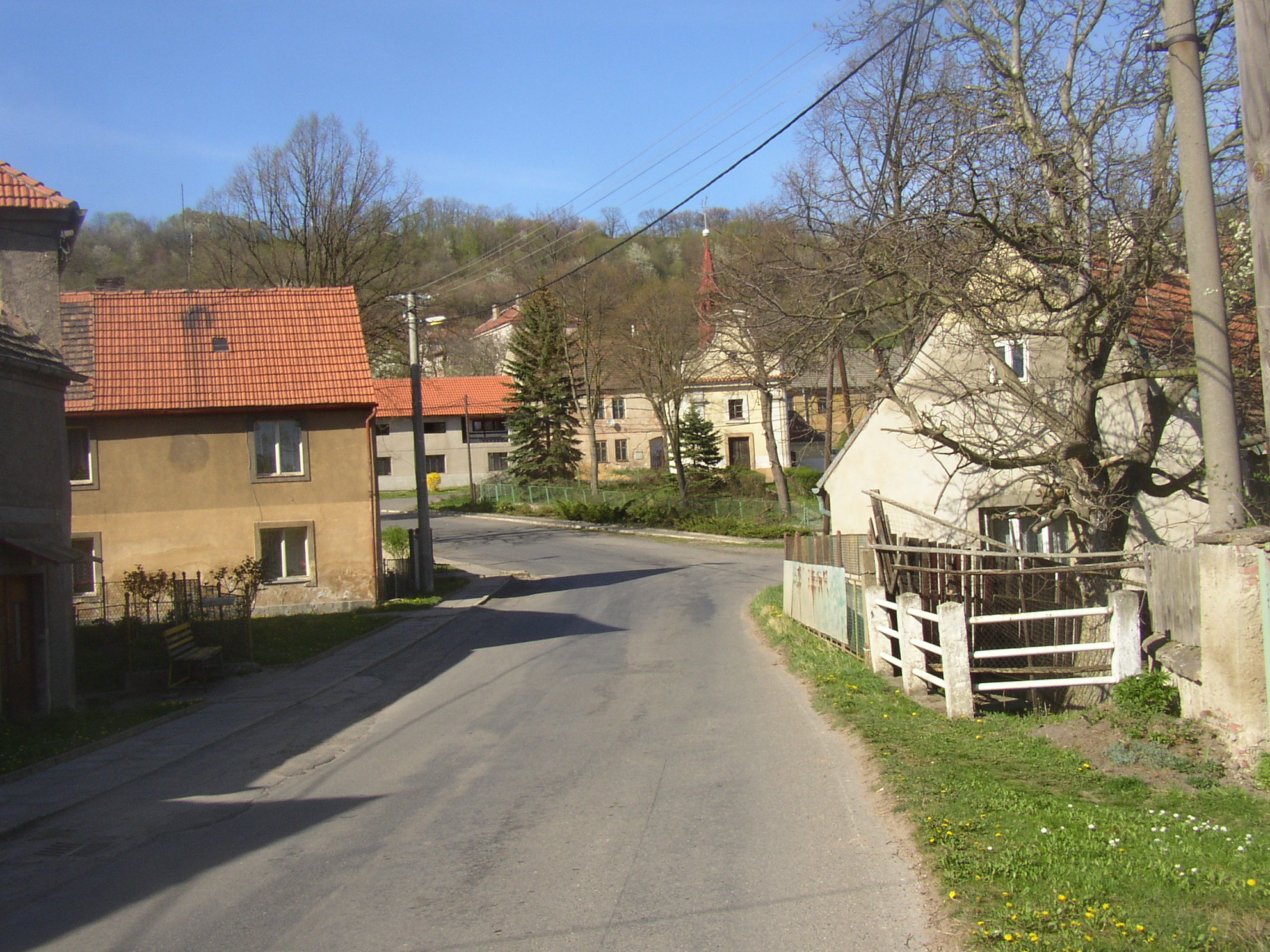 Village of Milý, Rakovník District, Czech Republic. View along thoroughfare towards centre of the village.